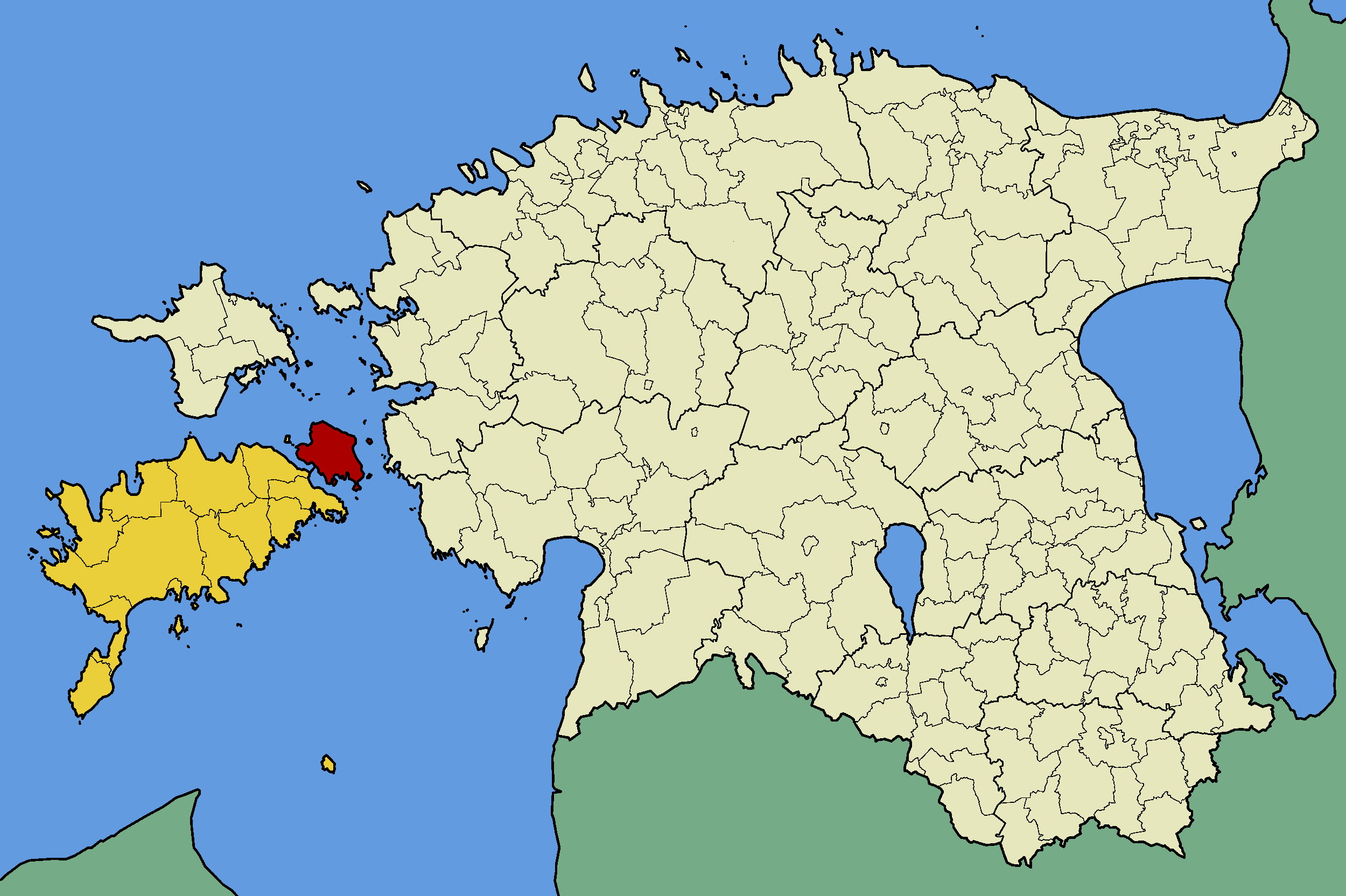 Map of Estonia with borders of municipalities (parishes). Saare county and Muhu municipality emphasized.